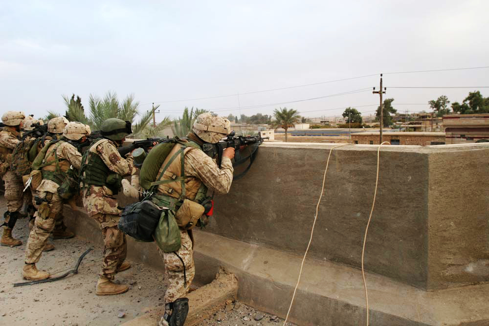 Marines from Company L, 3rd Battalion, 6th Marine Regiment, engage in a rooftop firefight, Nov. 7, during Operation Steel Curtain.